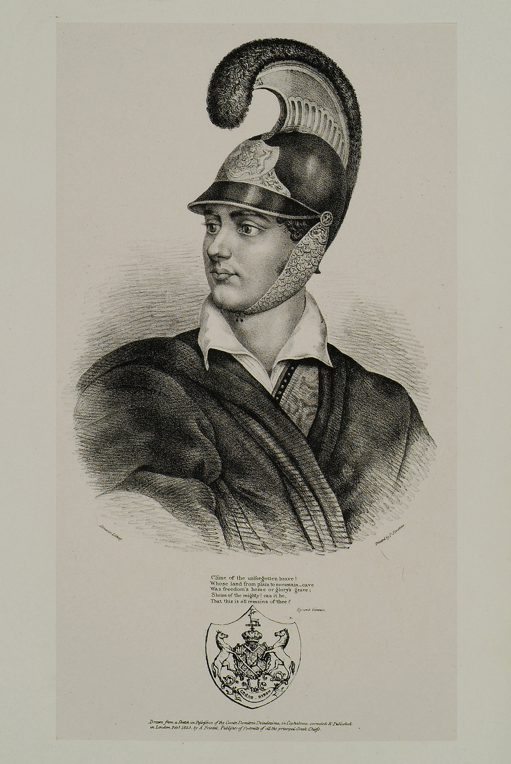 Adam de Friedel. The Greeks, Twenty-four Portraits of the principal Leaders and Personages who have made themselves most conspicuous in the Greek Revolution, from the Commencement of the Struggle, London, Adam de Friedel, 1830.